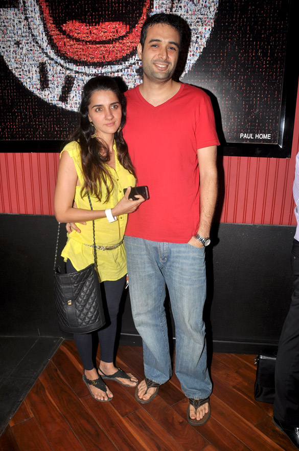 Shruti Seth, Danish Aslam at the Premiere of Ash Chandler's play at The Comedy Store